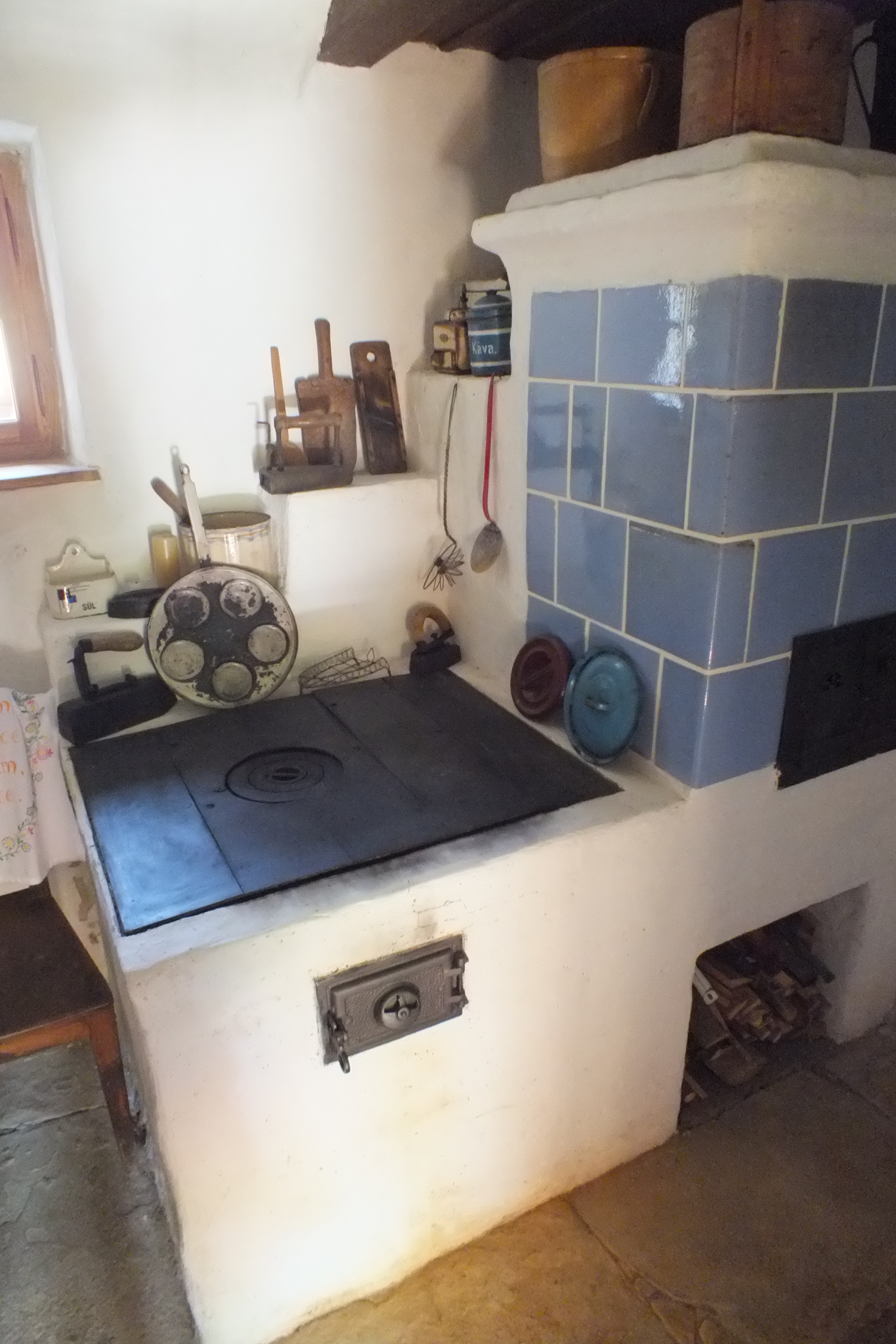 Museum of neutering in Komňa, No. 6. A person, who practiced neutering as his job, lived here. Neutering was a common job in the village in the past.